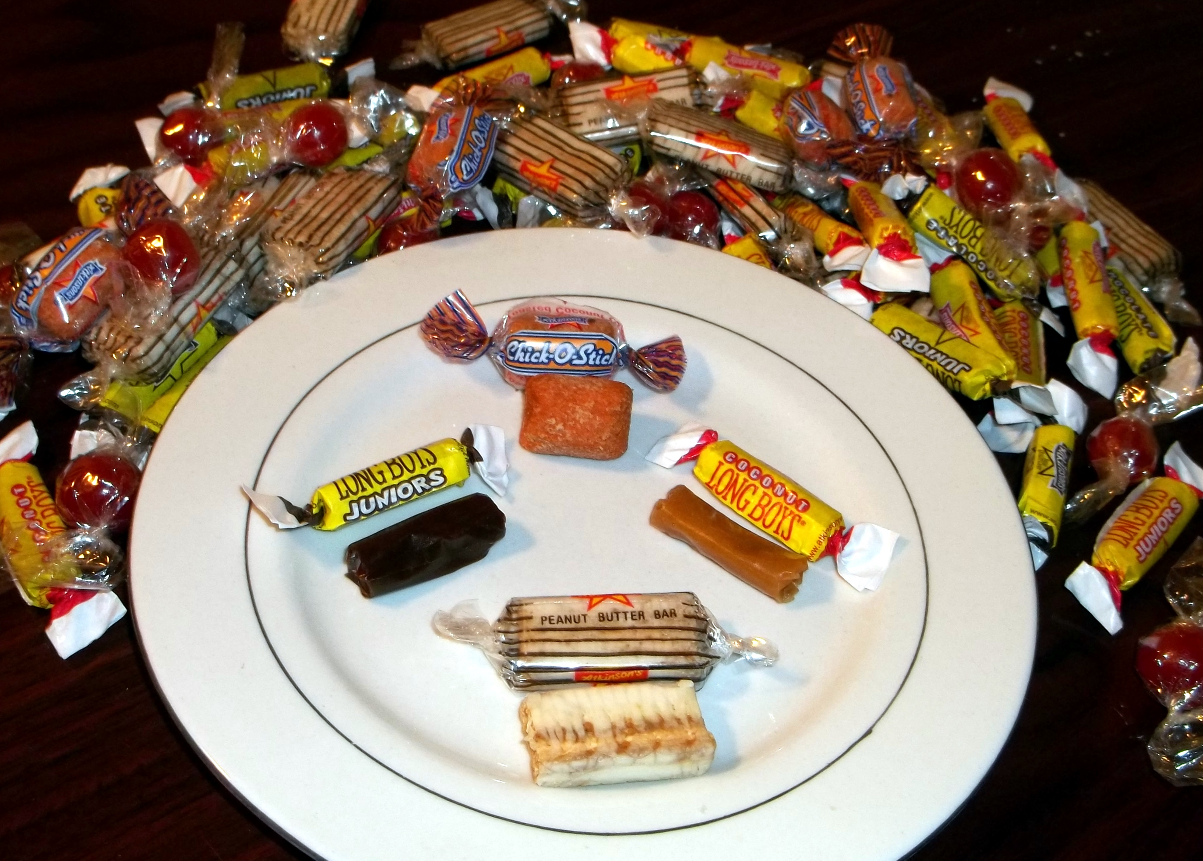 An assortment of candy from the Atkinson Candy Company, including Chick-o-Sticks, Long Boys, and Peanut Butter Bar.